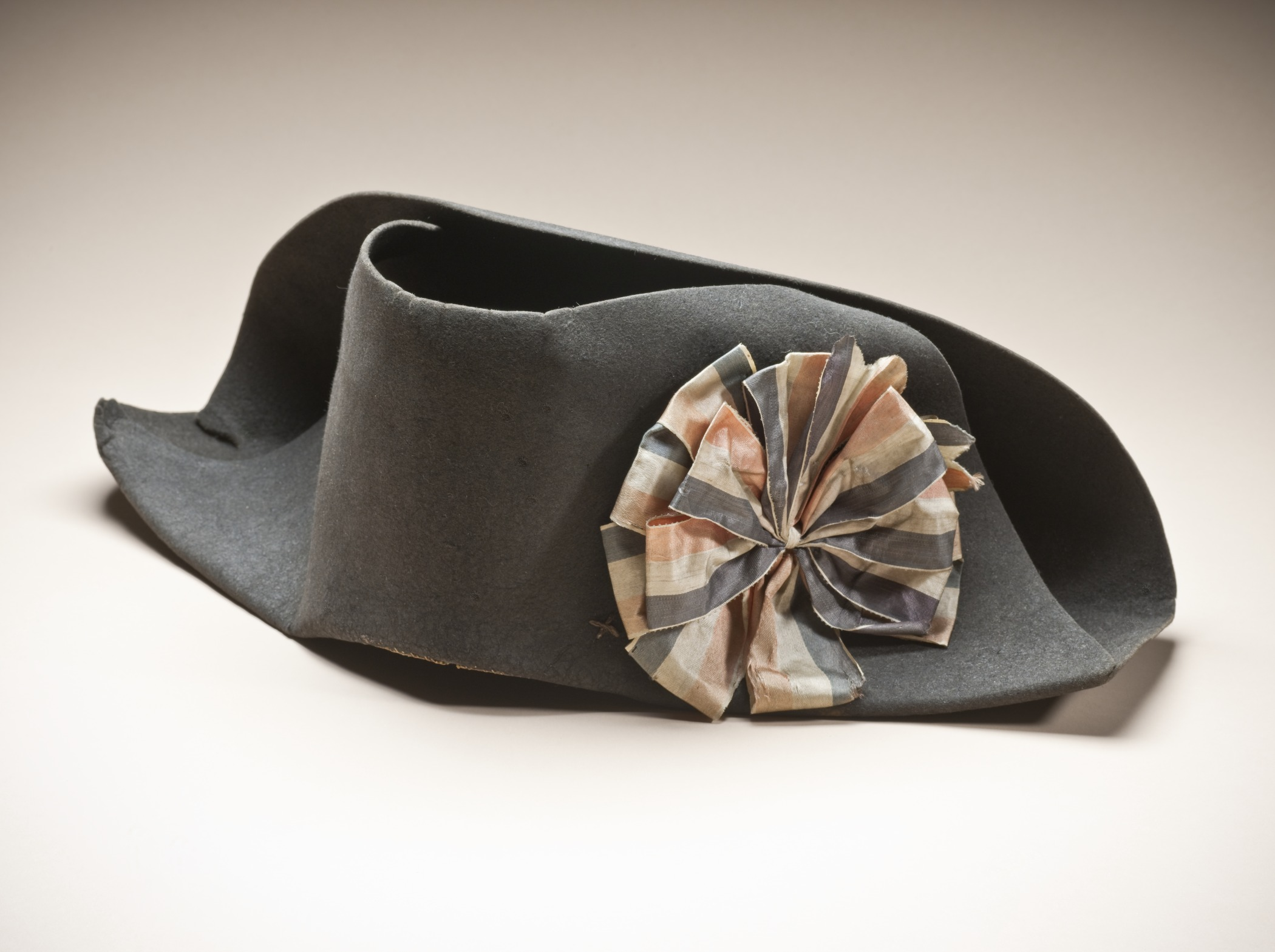 France, circa 1790 Costumes; Accessories Wool felt with silk plain weave ribbon Purchased with funds provided by Michael and Ellen Michelson (M.2010.33.1) Costume and Textiles